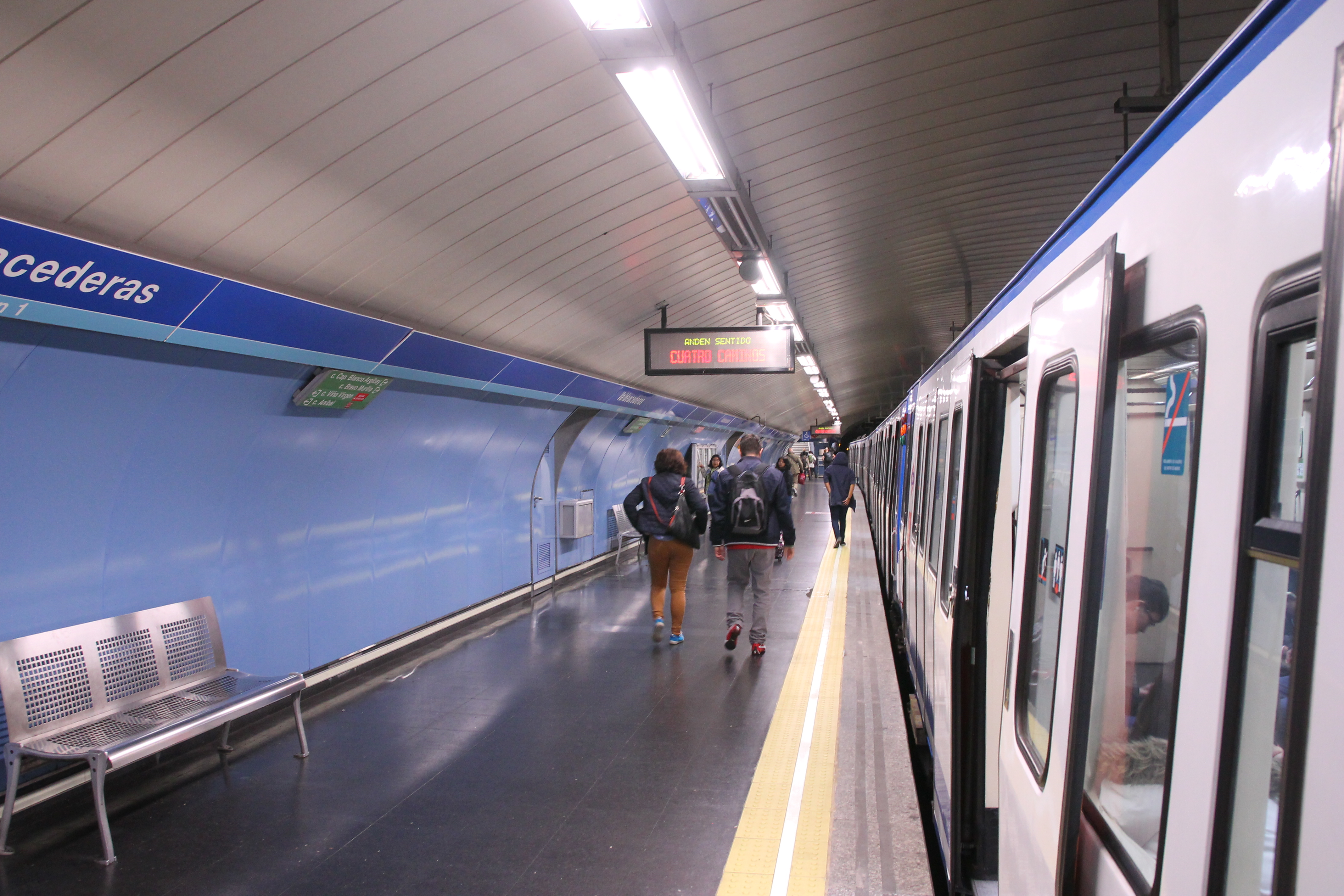 Estación de Valdeacederas